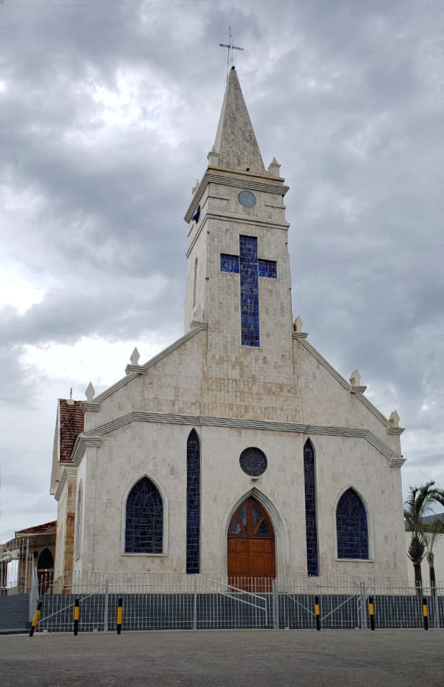 Fachada da Catedral de Santo Antônio, em Governador Valadares (MG).